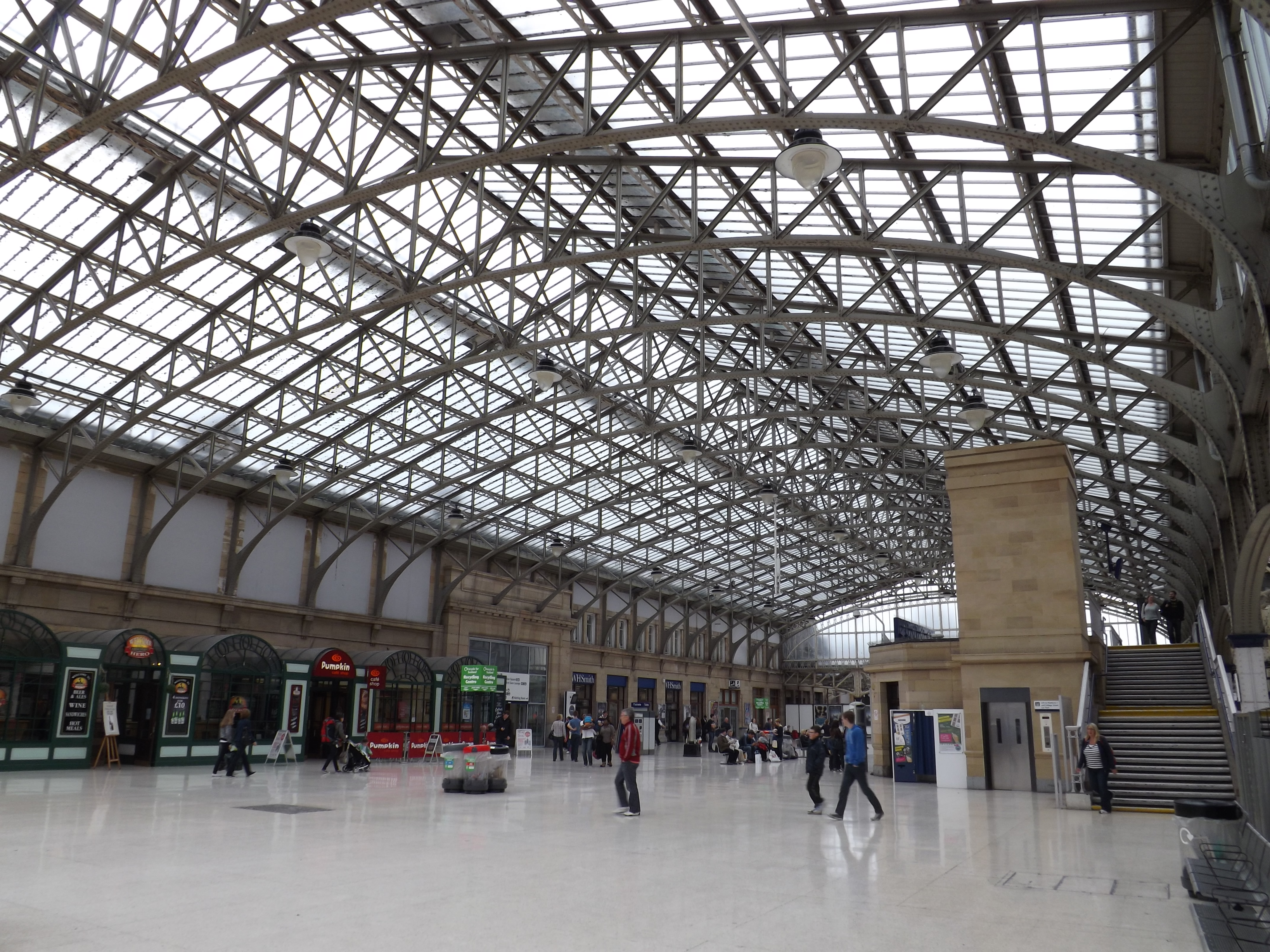 Aberdeen railway station in August 2013